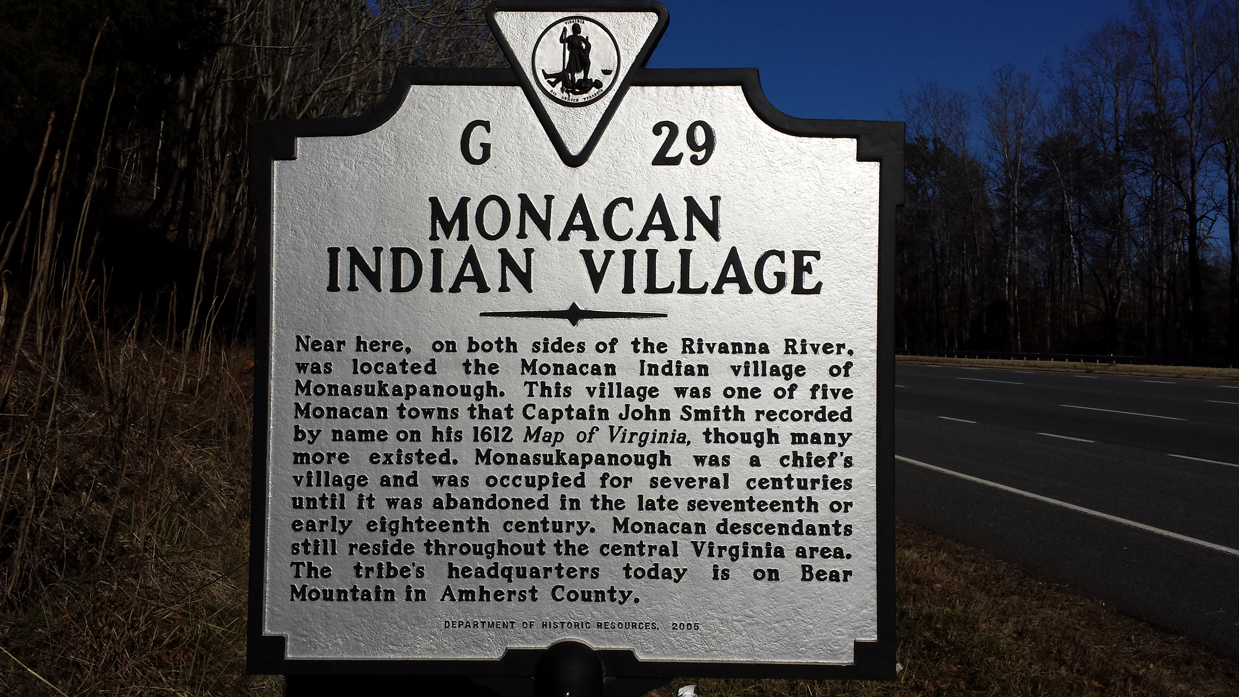 Historical marker near the site of the Monacan village of Monasukapanough, erected in northern Albemarle County, Virginia by the Department of Historic Resources, 2005.